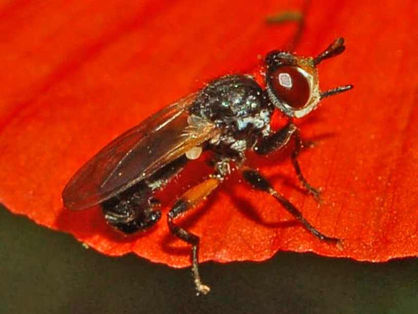 T. pusilla